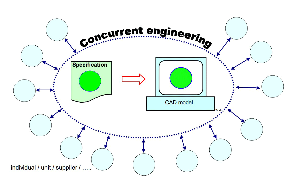 Concurrent engineering. Visualization of the process. February 2007 Laurens van Lieshout.